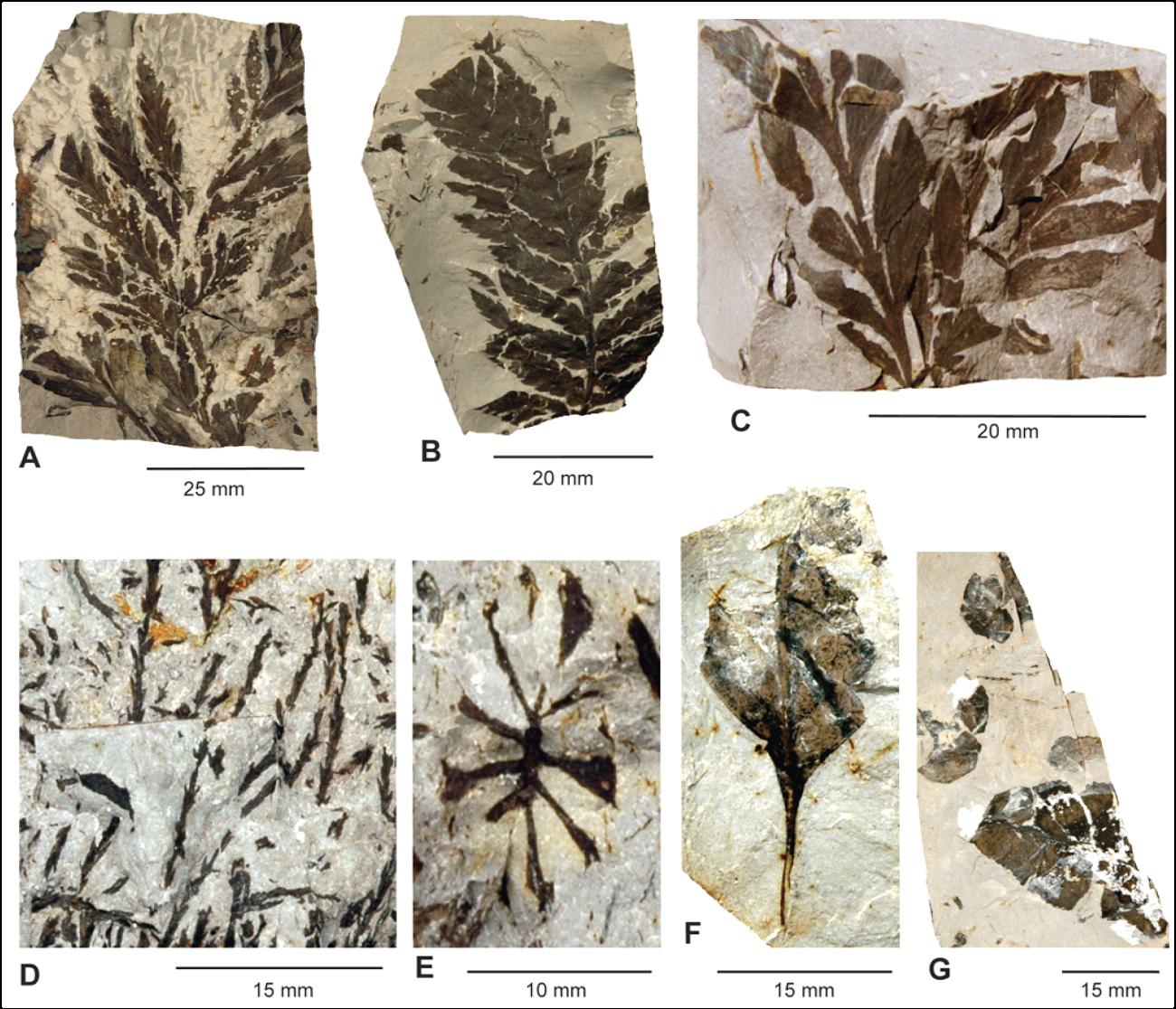 Plants found in Wayan Fm